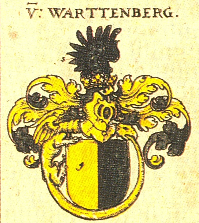 Coat of arms of Wartenberg